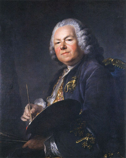 Jean-Marc Nattier (1685–1766), French painter